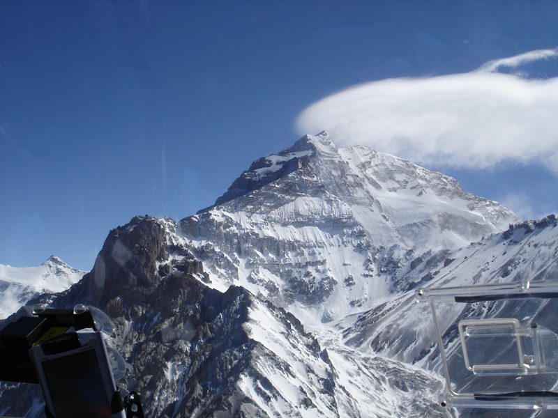 MWP-Crew Ohlmann/Heise in approach to Aconcagua